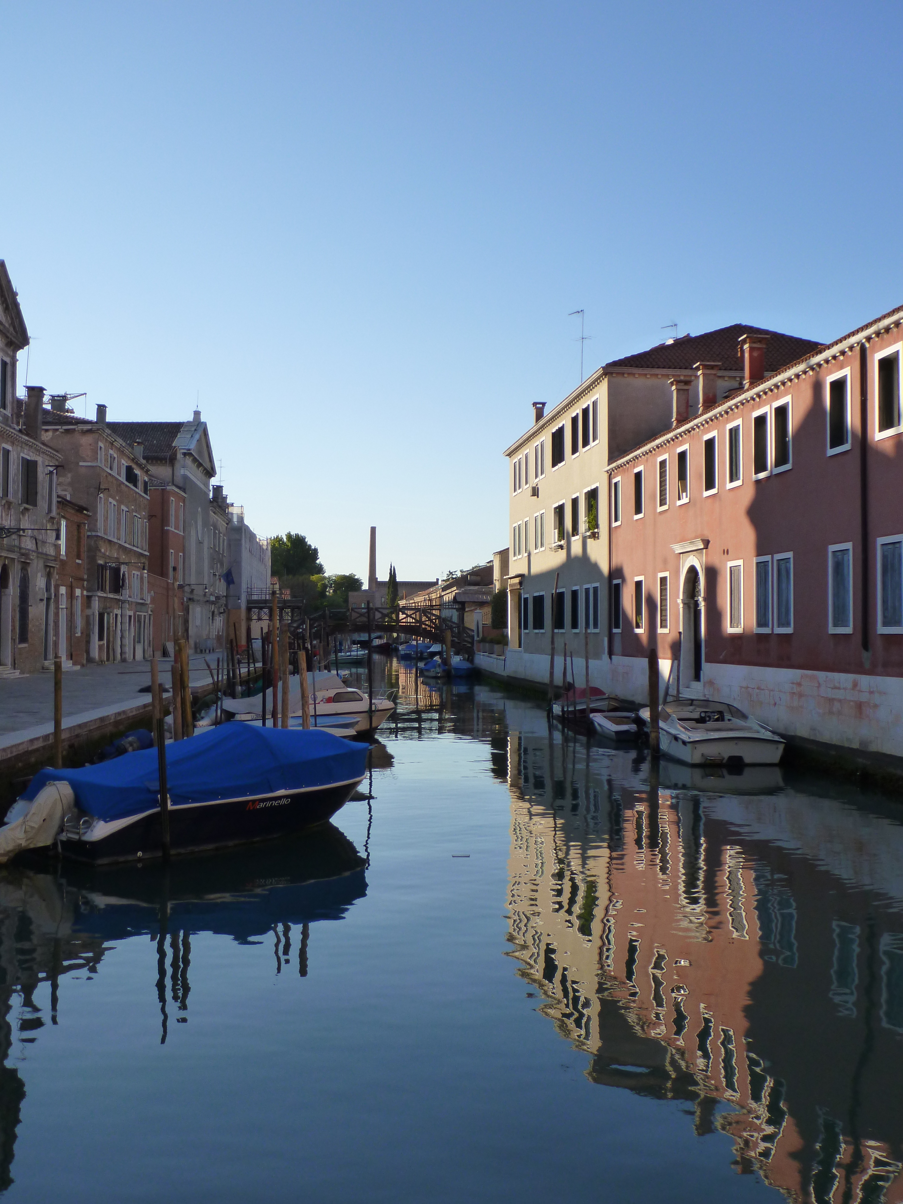 Rio delle Convertite, Giudecca (Venice)